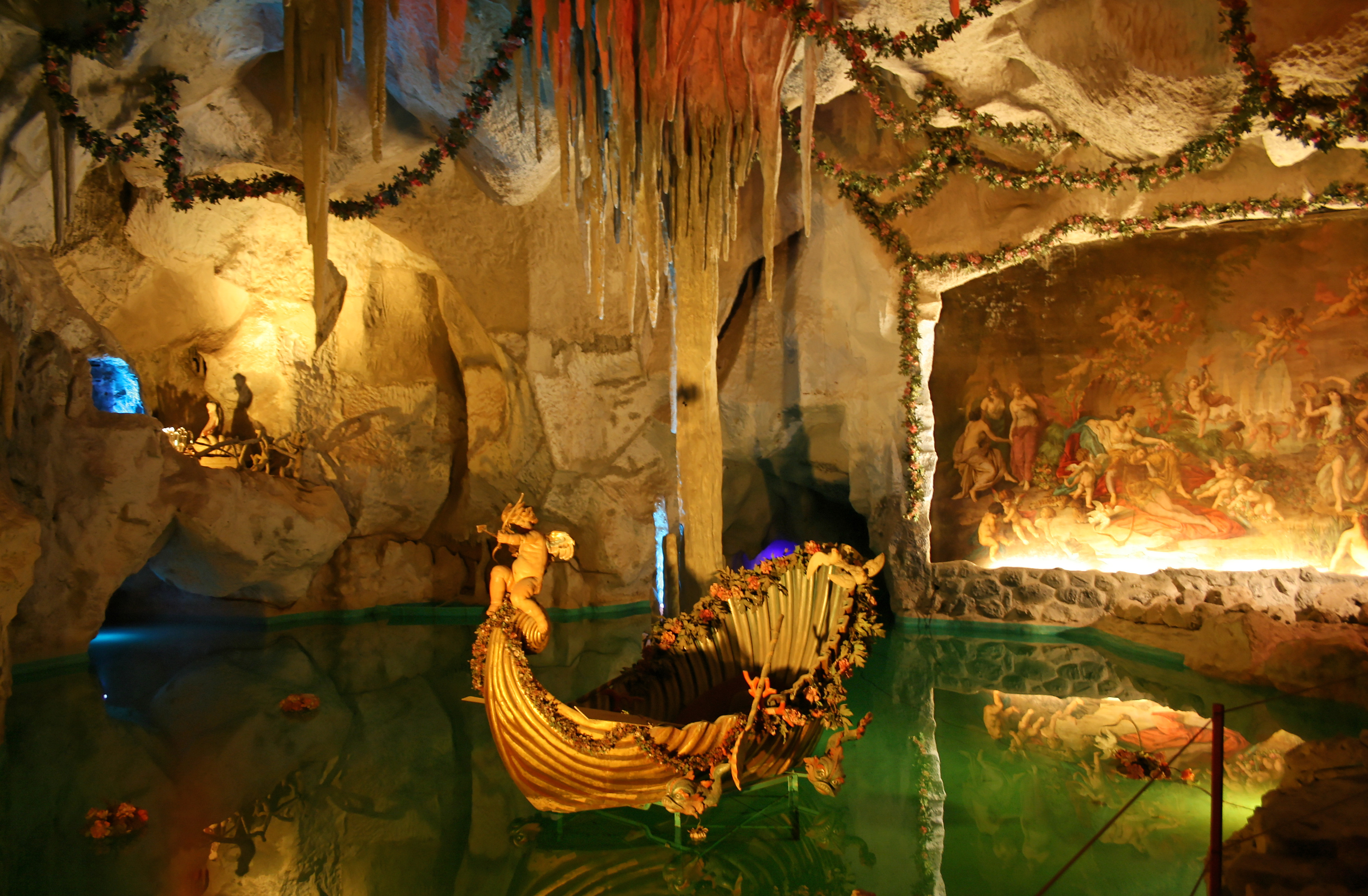 Linderhof Castle - Venus grotto.